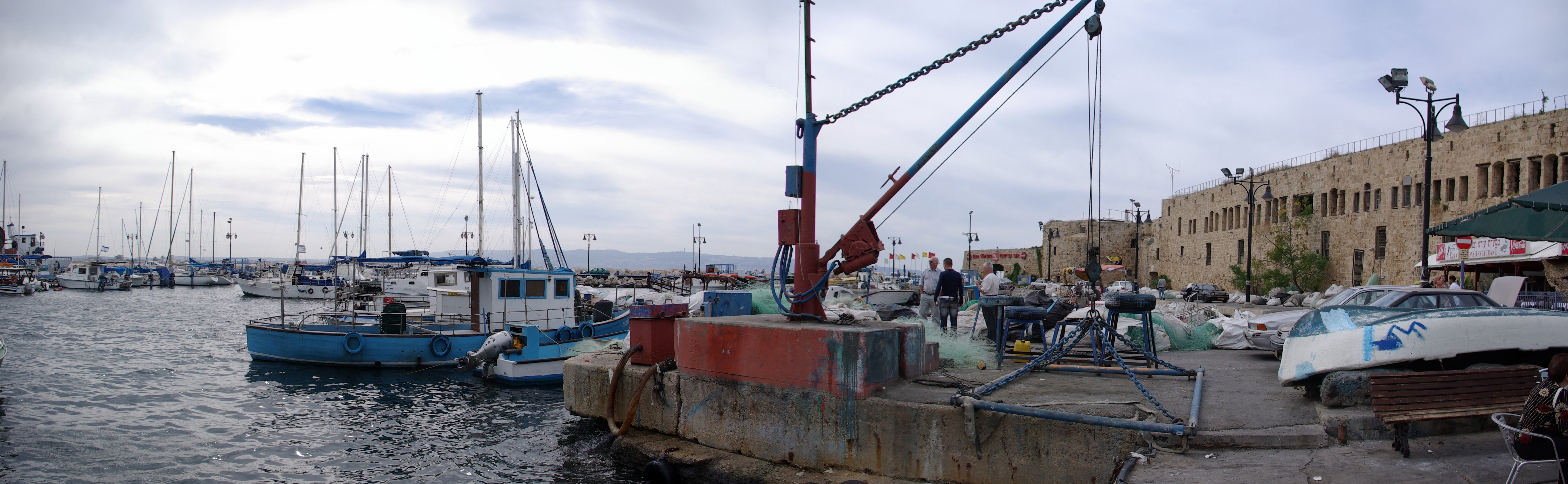 Acre, harbor